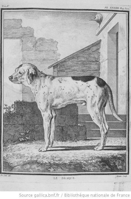 A Gundog of Braque type